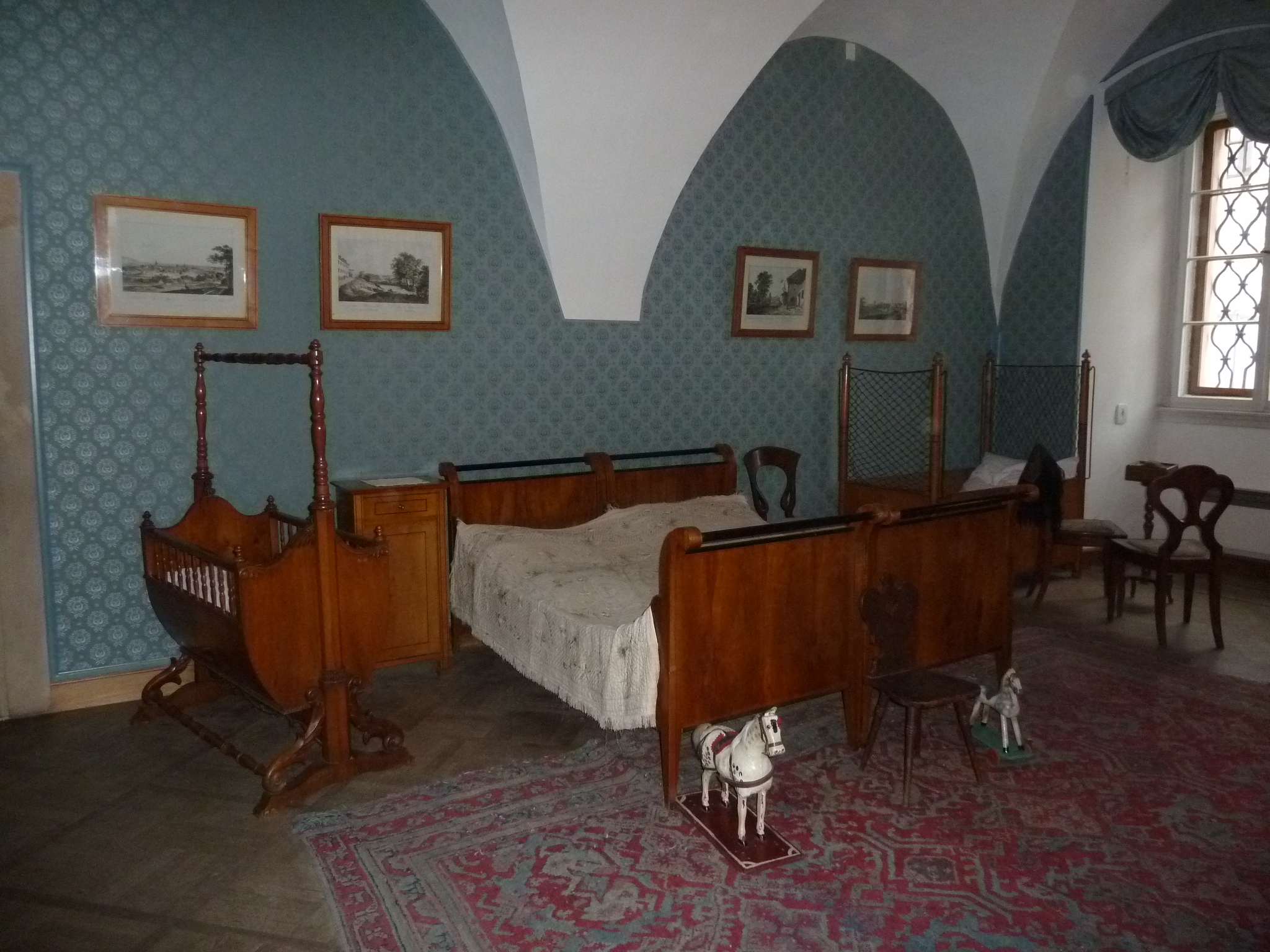 Native room of the czech composer Bedřicha Smetana (1824-1884) in the former castle brewery in Litomyšl, Czech Republic (branch of the City Museum)